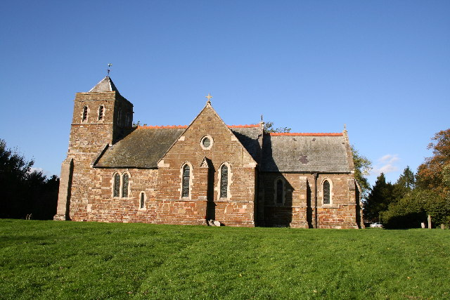 St Julian's parish church, Benniworth, Lincolnshire, seen from the south. 12th-century origins but almost entirely rebuilt in 1875 to designs by James Fowler of Louth. He re-used a Norman west doorway, Early English windows and a Perpendicular Gothic screen.